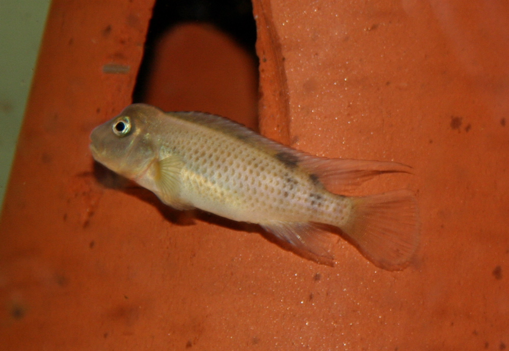 young female Steatocranus casuarius own fish, own photo Photo: Dr. David Midgley